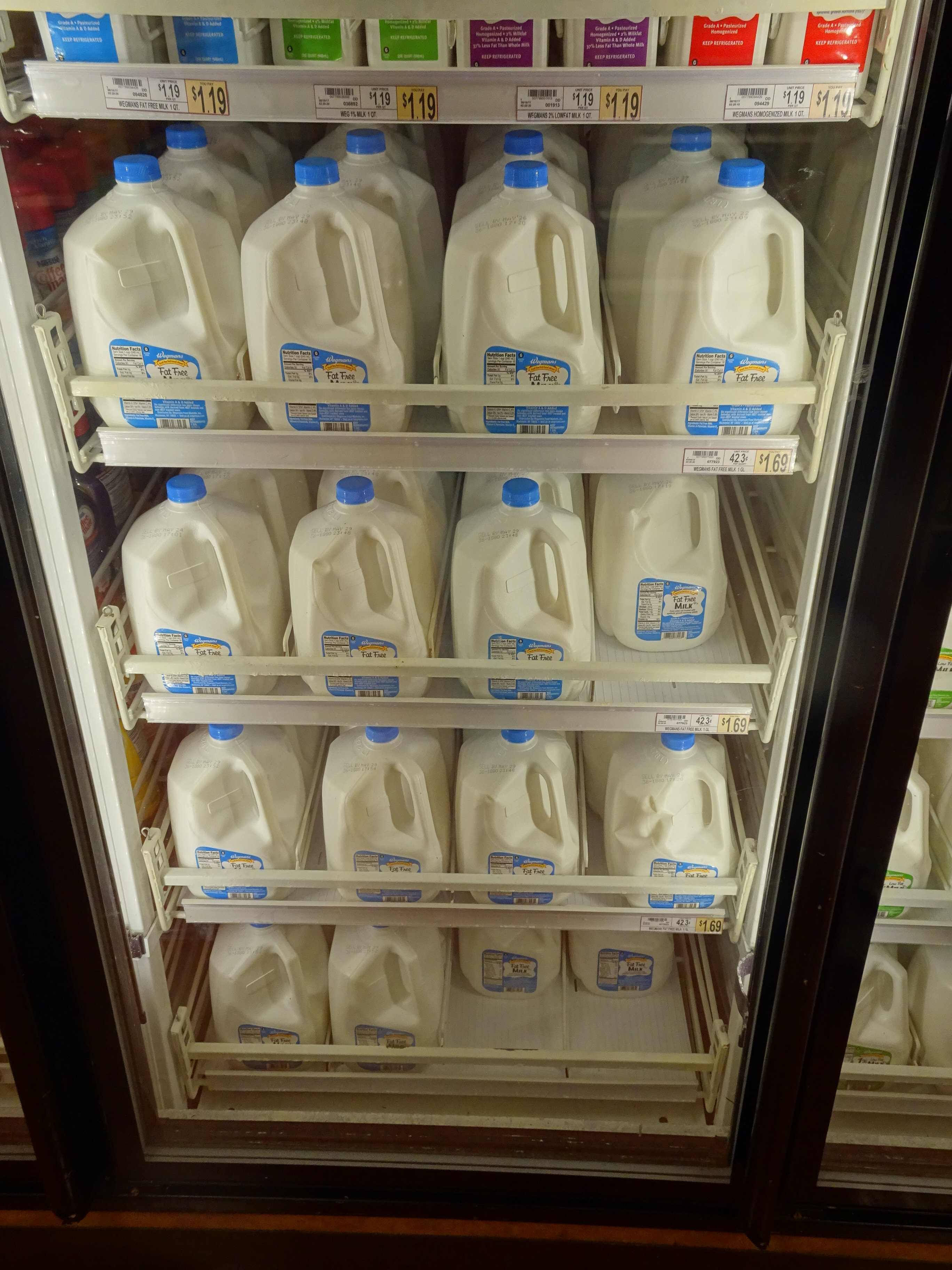 Low milk prices at Wegmans in New York in 2018.